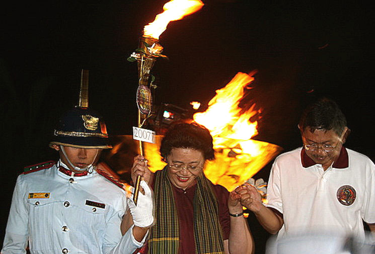 UP Diliman Corps Commander Ronald Cardema (left) and Commission on Higher Education chair Romulo Neri (right) assist University of the Philippines President Emerlinda Roman as she descends from the staircase that led to the lighting of the Centennial Flame during the kickoff of the UP Centennial Celebration at the Oblation Plaza, Quezon Hall.